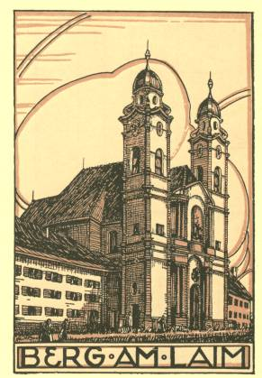 Saint Michael's in Berg am Laim (Munich, Bavaria); Postcard, ca. 1900